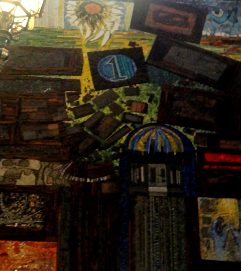 This mural is in the main foyer of the Nebraska Capitol building. It was made by Reinhold Marxhausen.